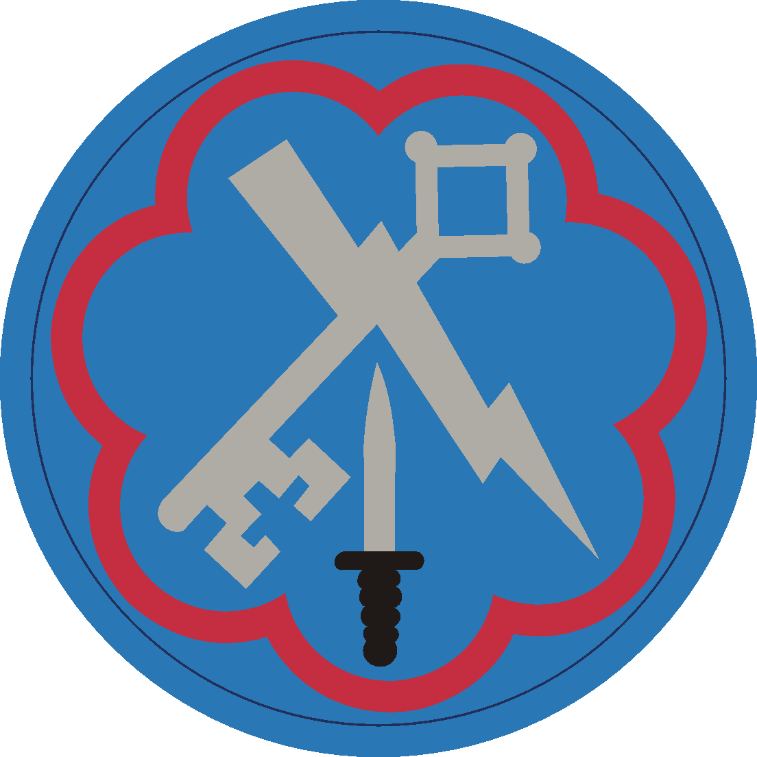 207th Military Intelligence Brigade shoulder sleeve insignia